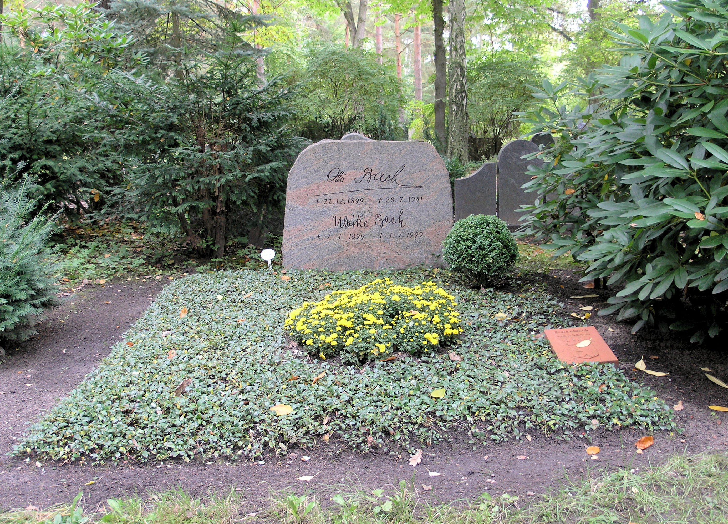 "Ehrengrab" (grave of honor), Otto Friedrich Bach, Potsdamer Chaussee 75, Berlin-Nikolassee, Germany Koordinate:52°25′23″N 13°12′38″E / 52.42306°N 13.21056°E